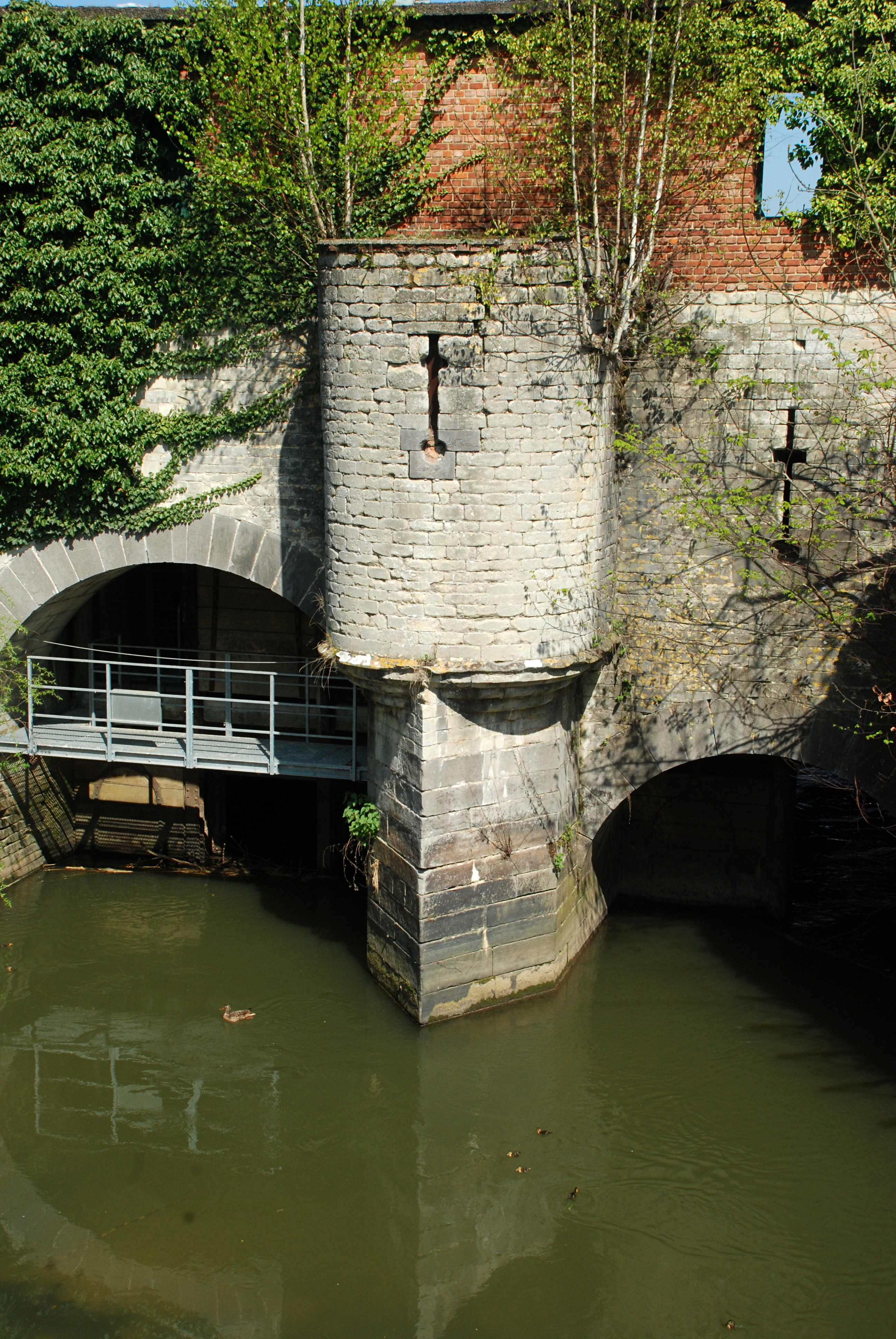 Belgium - Leuven - great lock